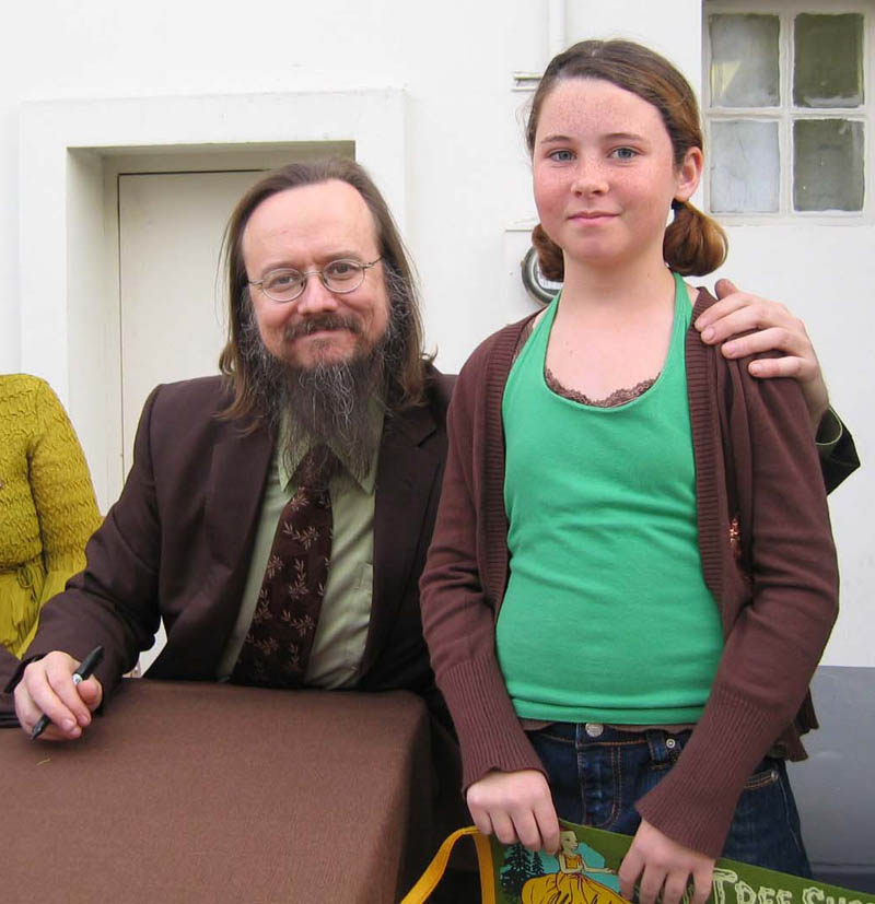 Painter Mark Ryden (with a young fan) at the opening of his new exhibit "The Tree Show" at the Michael Kohn Gallery in Los Angeles (March 10, 2007). (Note: All attendees were asked to wear brown and green attire for the occasion, as evidenced.)